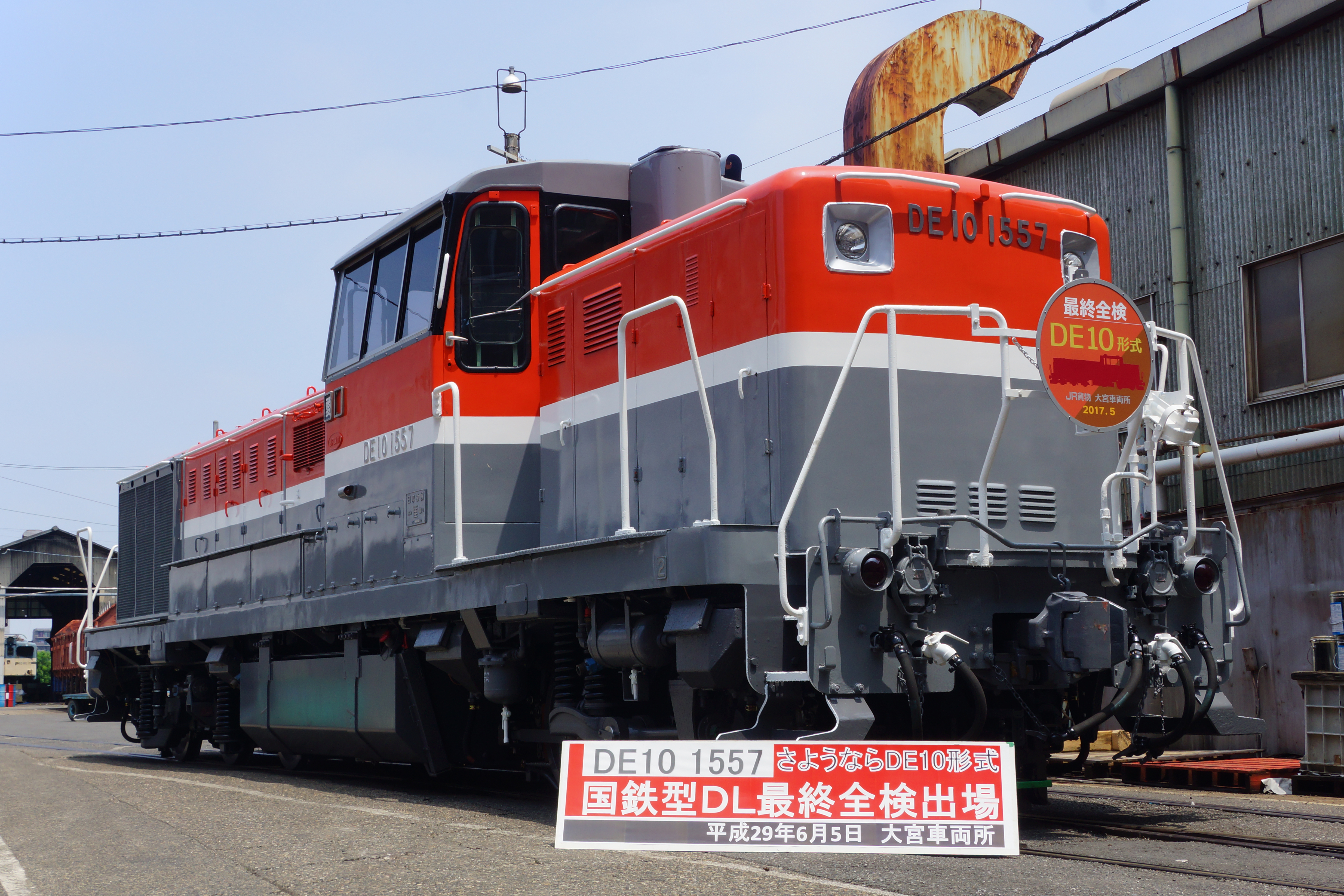 JR Freight Class DE10-1500 diesel locomotive DE10 1557 at Omiya General Rolling Stock Center open day. The placard marks this as the last JNR-era diesel locomotive to receive a general overhaul at Omiya.